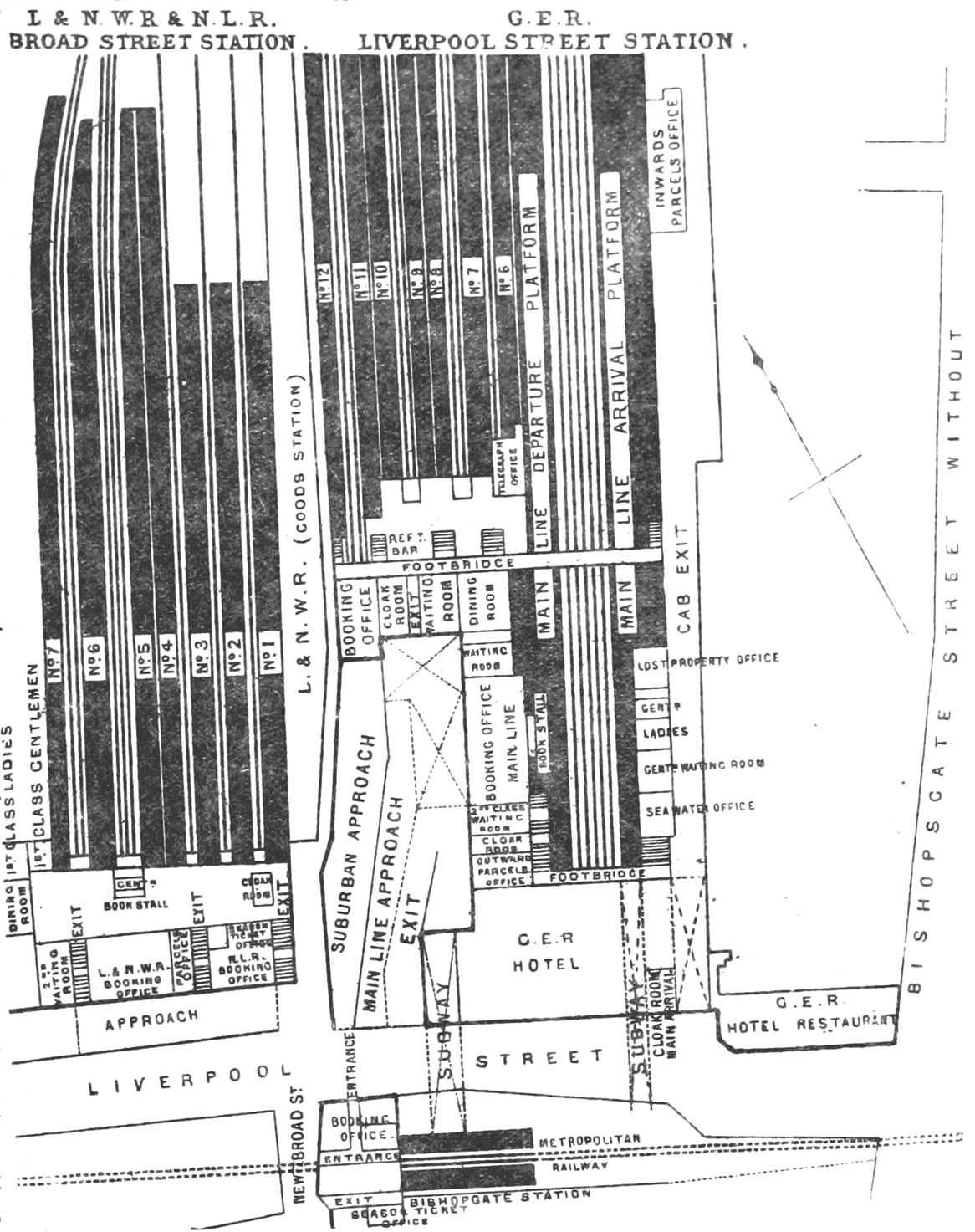 Plan of Broad Street railway station and Liverpool Street railway station as they were in 1888.